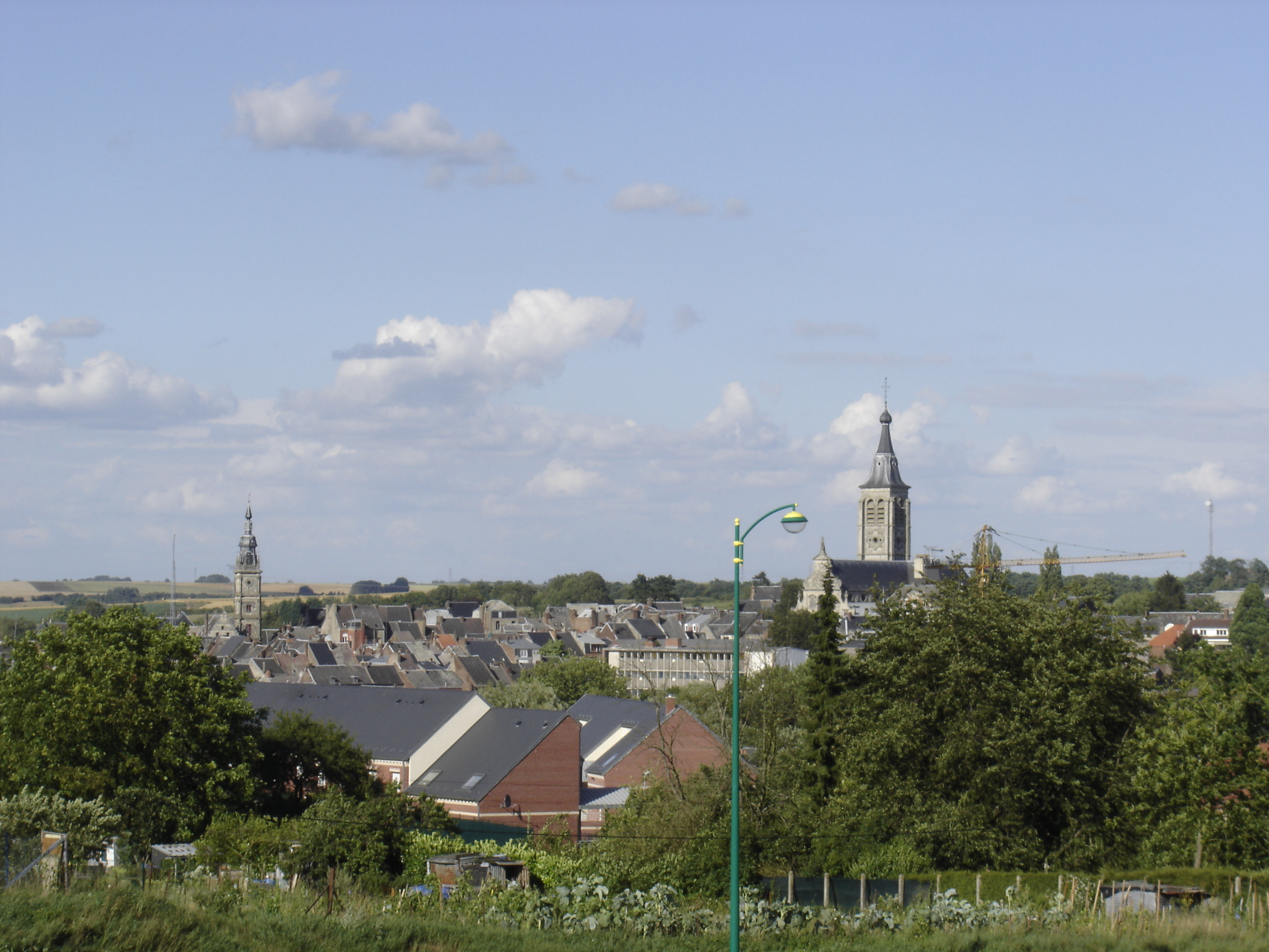 The city of Le Cateau-Cambrésis, overall view with belfry (left) and church tower (right).